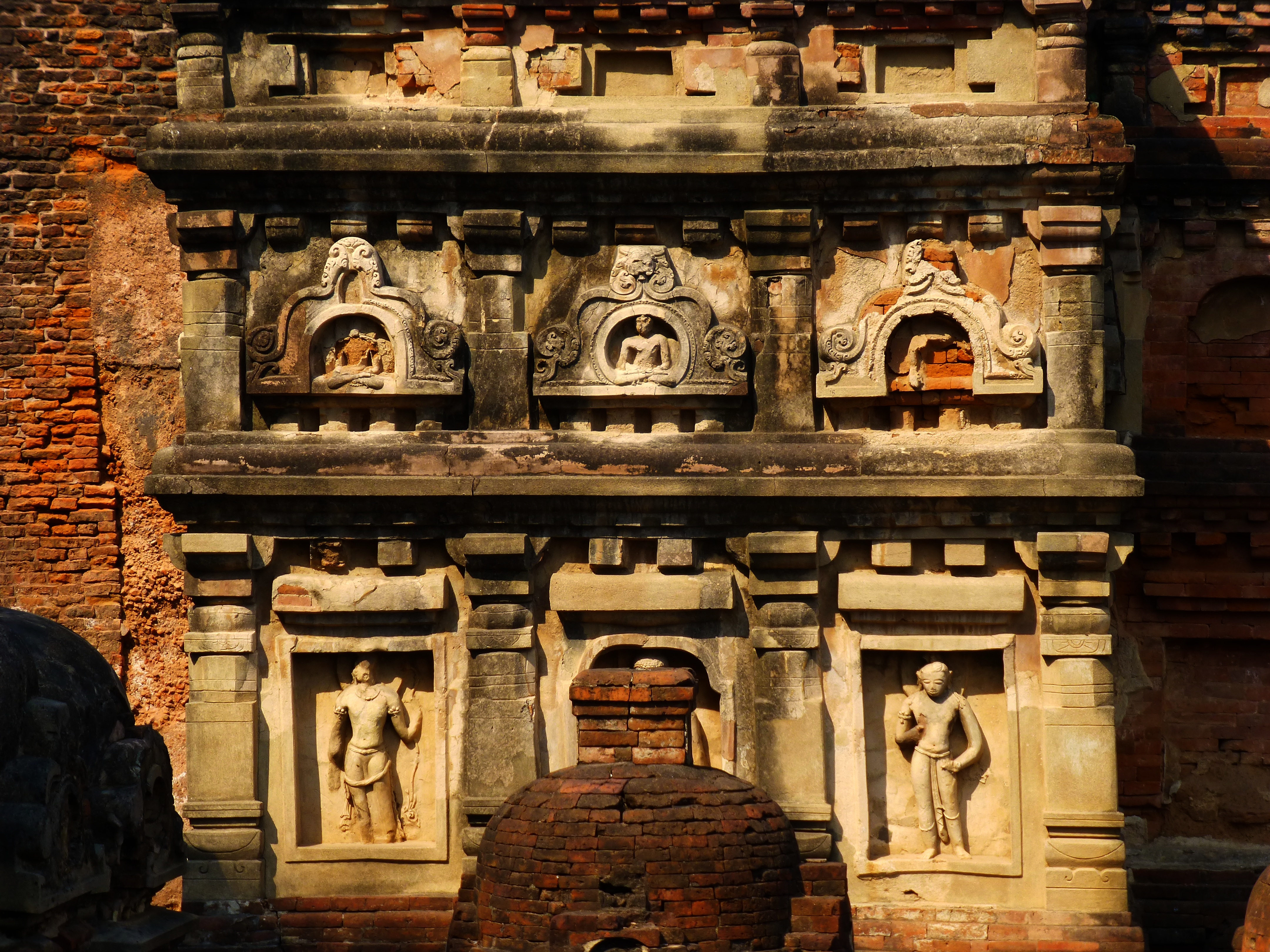 017 Images on Tower at Nalanda Photograph from the ruins of Nalanda in Bihar taken by Anandajoti.